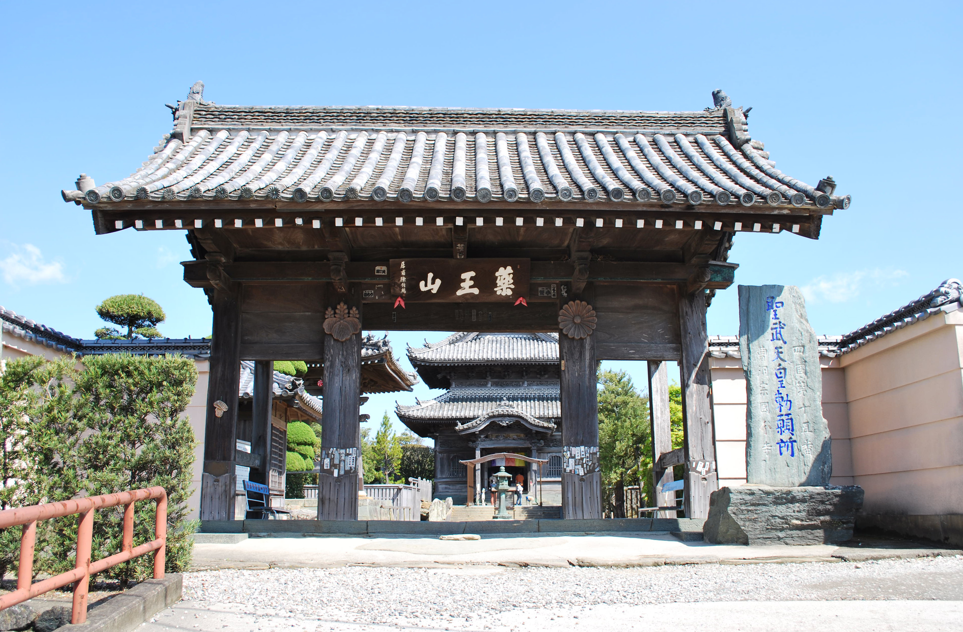 Temple gate, Awa Kokubun-ji